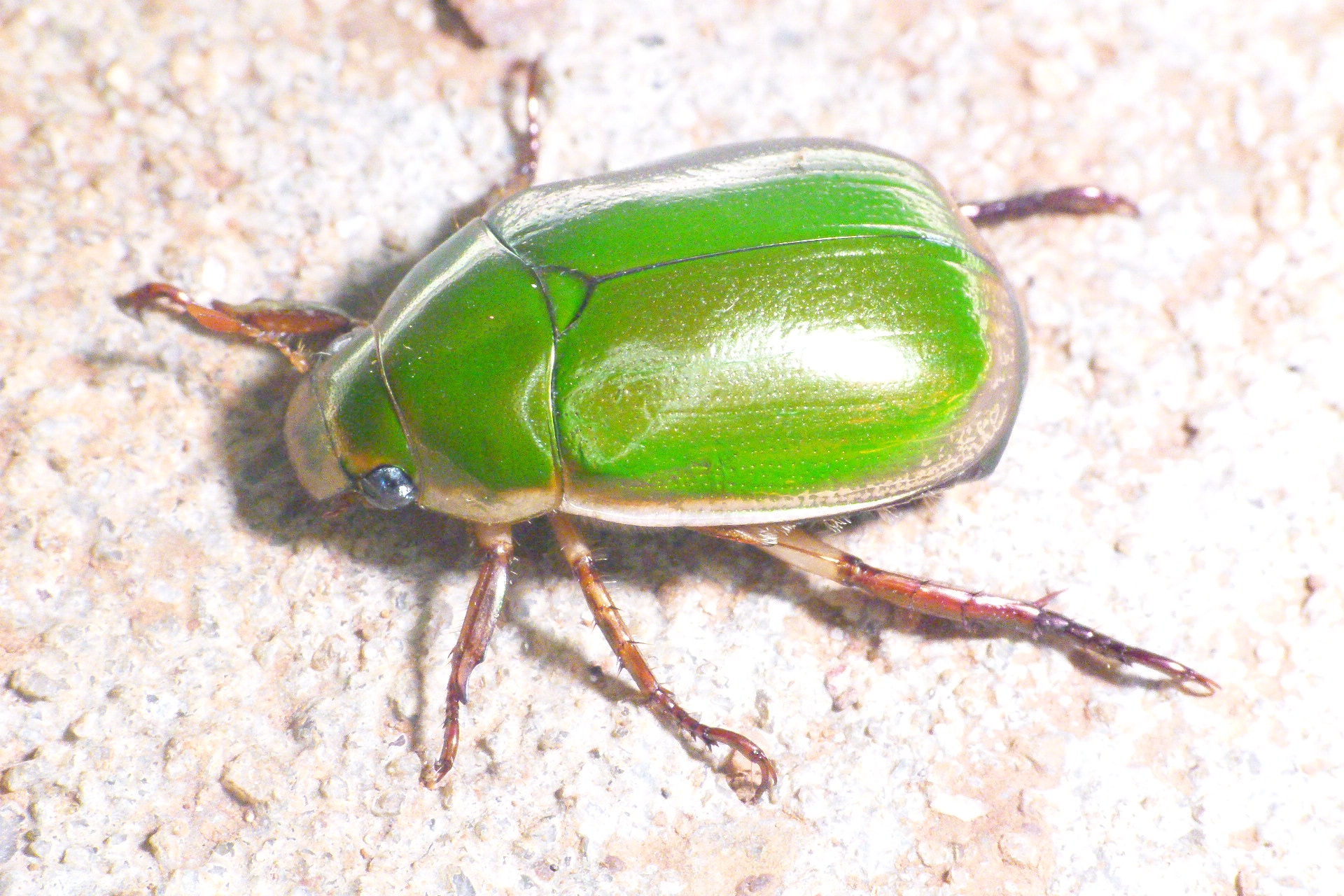 Mimela sp. (near xanthorhina) Rutelinae, Scarabaeidae. Mudigere, India. Species determined by Dr A R V Kumar, UAS Bangalore.